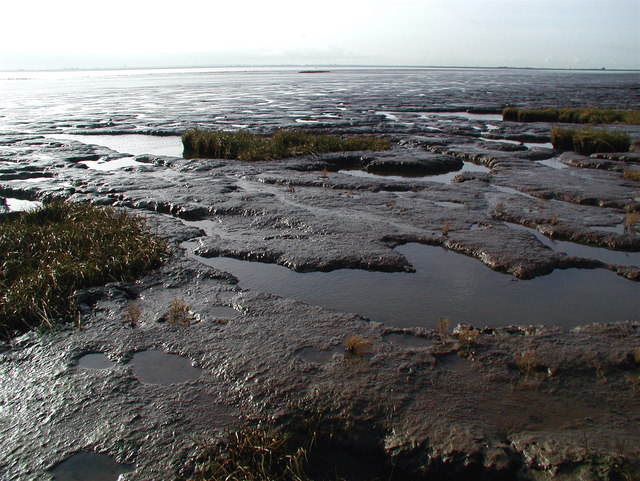 Burstall Priory, Skeffling, East Riding of Yorkshire, England.The River Humber, a hundred metres or so from the bank where the unpredictable saltmarsh gives way to a vast expanse of mud. Somewhere beneath all this is the site of Burstall Priory, founded by the Albermarle family of Normandy on land granted to them by William the Conqueror. The monks here were apparently subject to many hardships including the frequent seizure of their land during hostilities between England and France. The Priory was in ruins by 1720 and the last traces of it disappeared during floods in the 1900s. Bits of the property were salvaged over the centuries, including a stone doorway which is now in Easington Church and a tomb which was moved into the church at Welwick. Burstall Lane which once connected the priory with Skeffling village is now nothing more than a public footpath along a field drain but it does give a clue to the priory's former location.